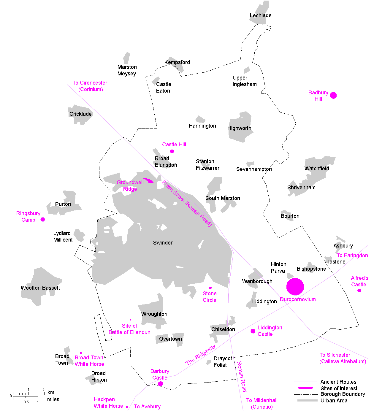 Outline map of the Borough of Swindon with Historical Sites and Routes displayed